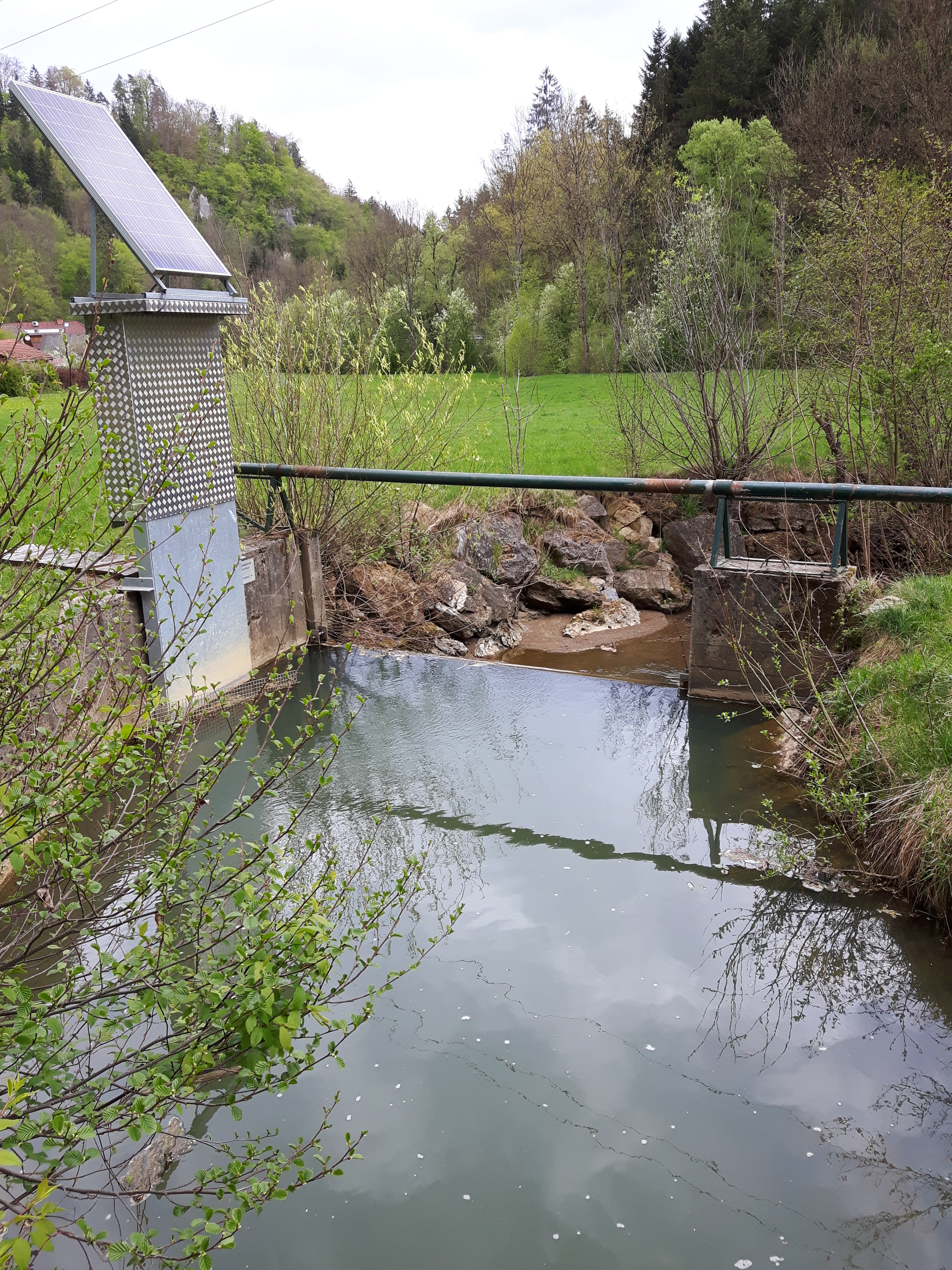 The Schirningbach near the Reinerteiche, Gratwein-Straßengel, Styria